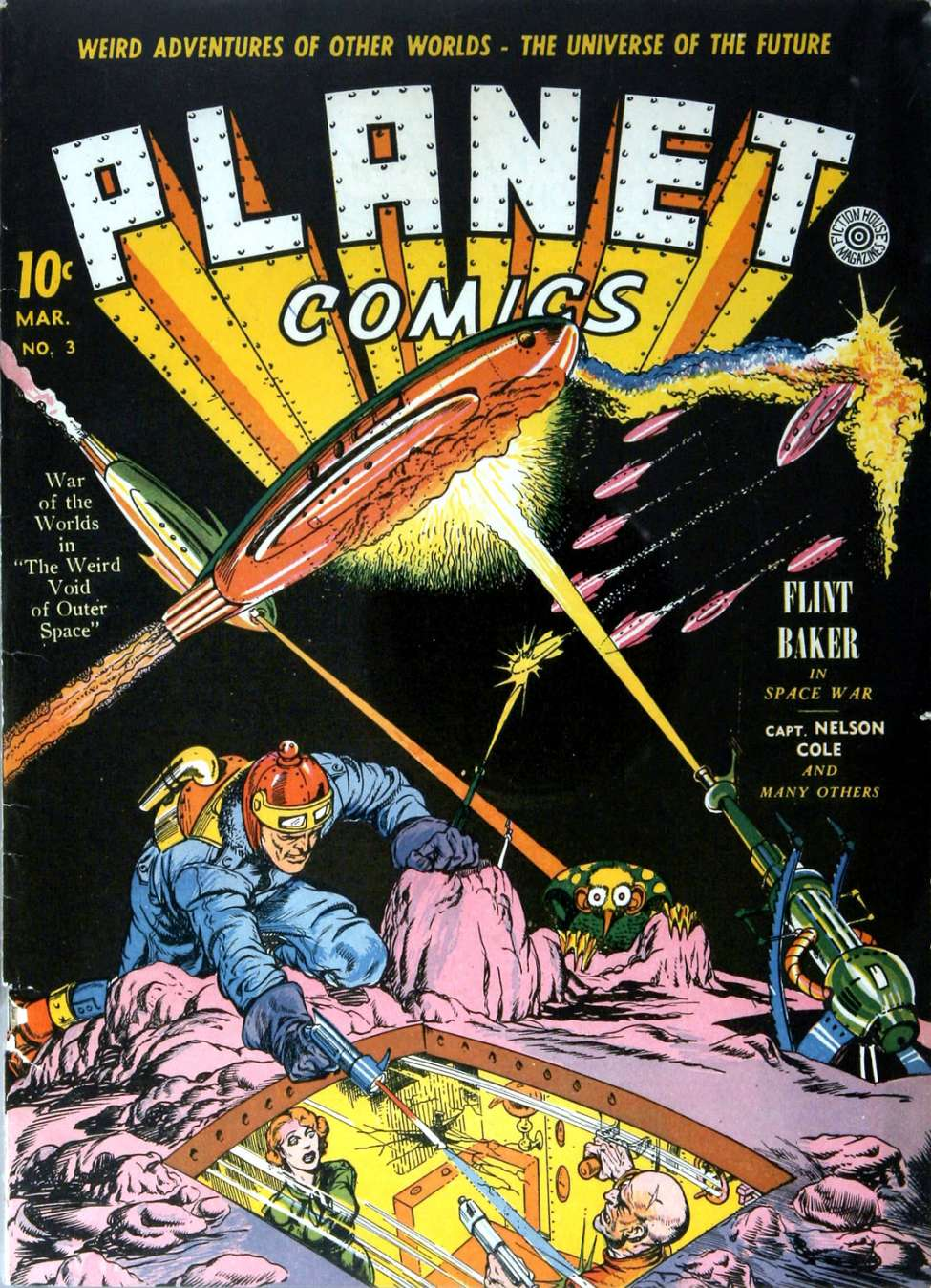 Cover scan of Planet Comics, No. 03, edited by Fiction House.